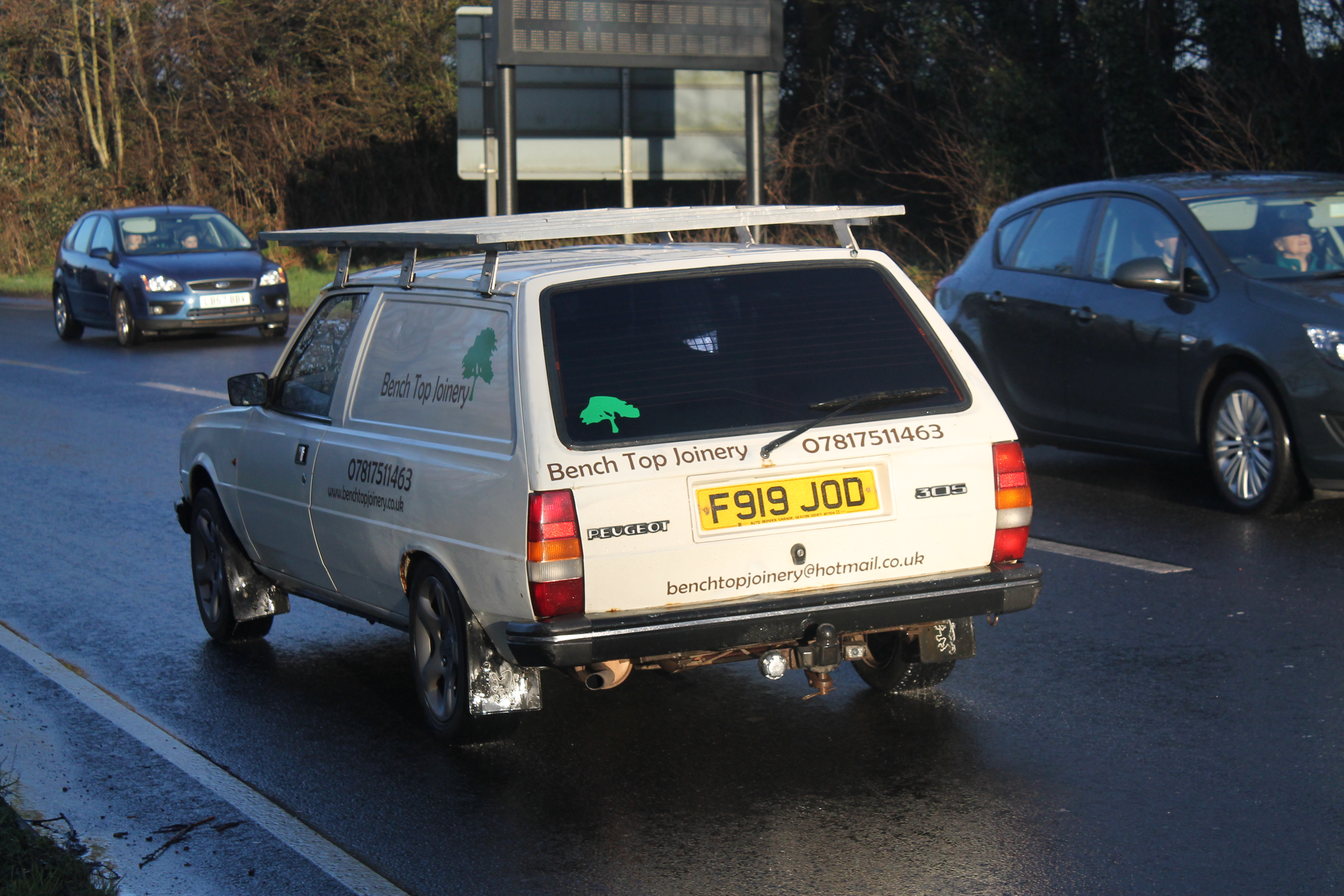 Wow- a proper surprise. I was just wandering along this busy road waiting for my Dad to pick my up when I saw this coming towards me. The owner's fitted it with blue xenon lights which looked a bit odd and modern alloys, but still it's a 305 van! Can't be too many working 305s in the UK. This one belongs to a joinery company. I never thought I'd see a 305 in the UK, they're really not common. A commercial van version is of particular interest to me. This is one of 26 305 GLs on the road, and one of 6 from 1988. I wonder how many of those are vans? The vehicle details for F919 JOD are: Date of Liability 01 11 2014 Date of First Registration 13 12 1988 Year of Manufacture 1988 Cylinder Capacity (cc) 1905cc CO₂ Emissions Not Available Fuel Type HEAVY OIL Export Marker N Vehicle Status Licence Not Due Vehicle Colour WHITE Vehicle Type Approval Not Available